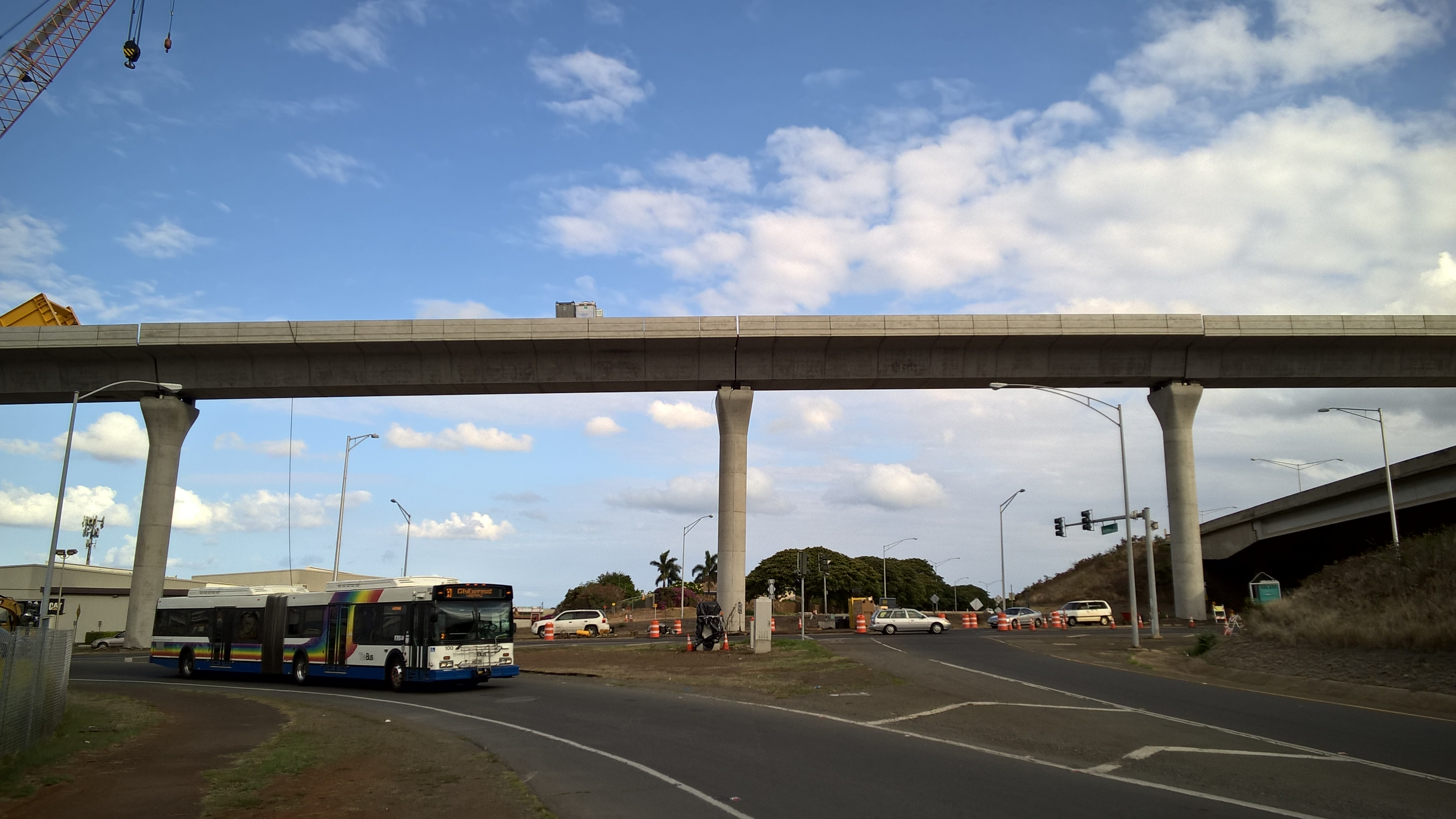 The guideway for the Honolulu Rail Transit Project over Farrington Highway near Waipahu Town Center, with a TheBus New Flyer D60LF.